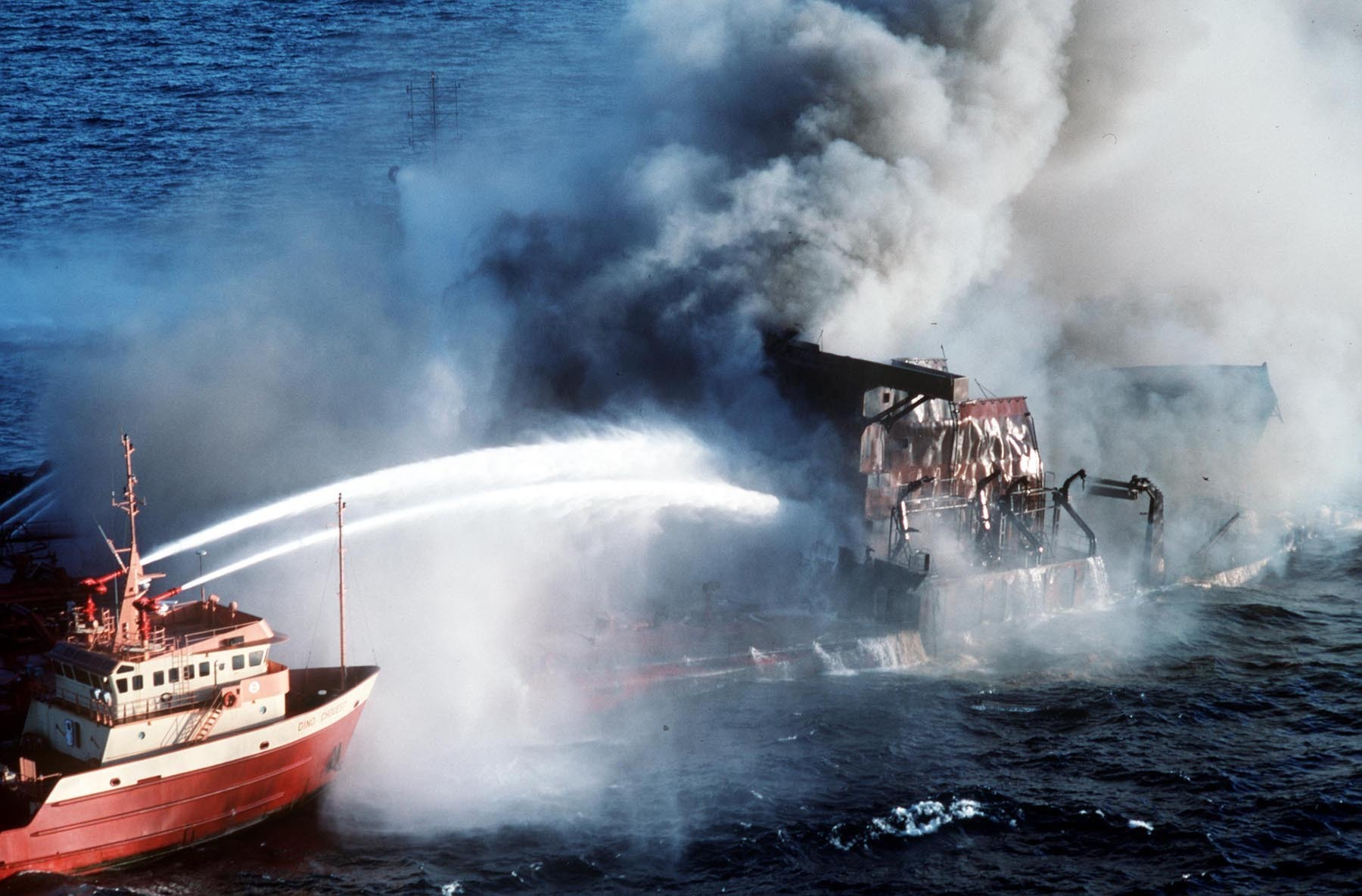 Galveston, TX (June 02)--Coast Guard, tugboats, and fireboats attempt to out a fire that engulf the Swedish motor tanker Mega Borg after it exploded 60 miles southeast of Galveston, TX. USCG photo by KALNBACH, CHUCK PA1